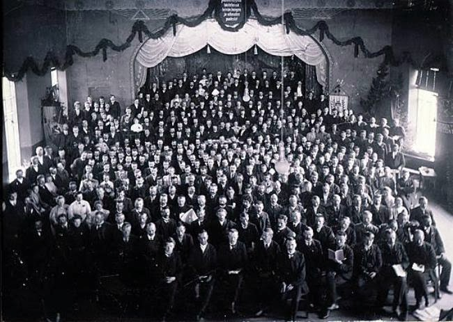 5th congress of the Social Democratic Party of Finland, 20–27 August 1906 in Oulu.